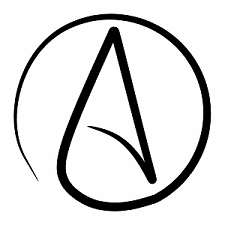 One common symbol for atheism created by Diane Reed